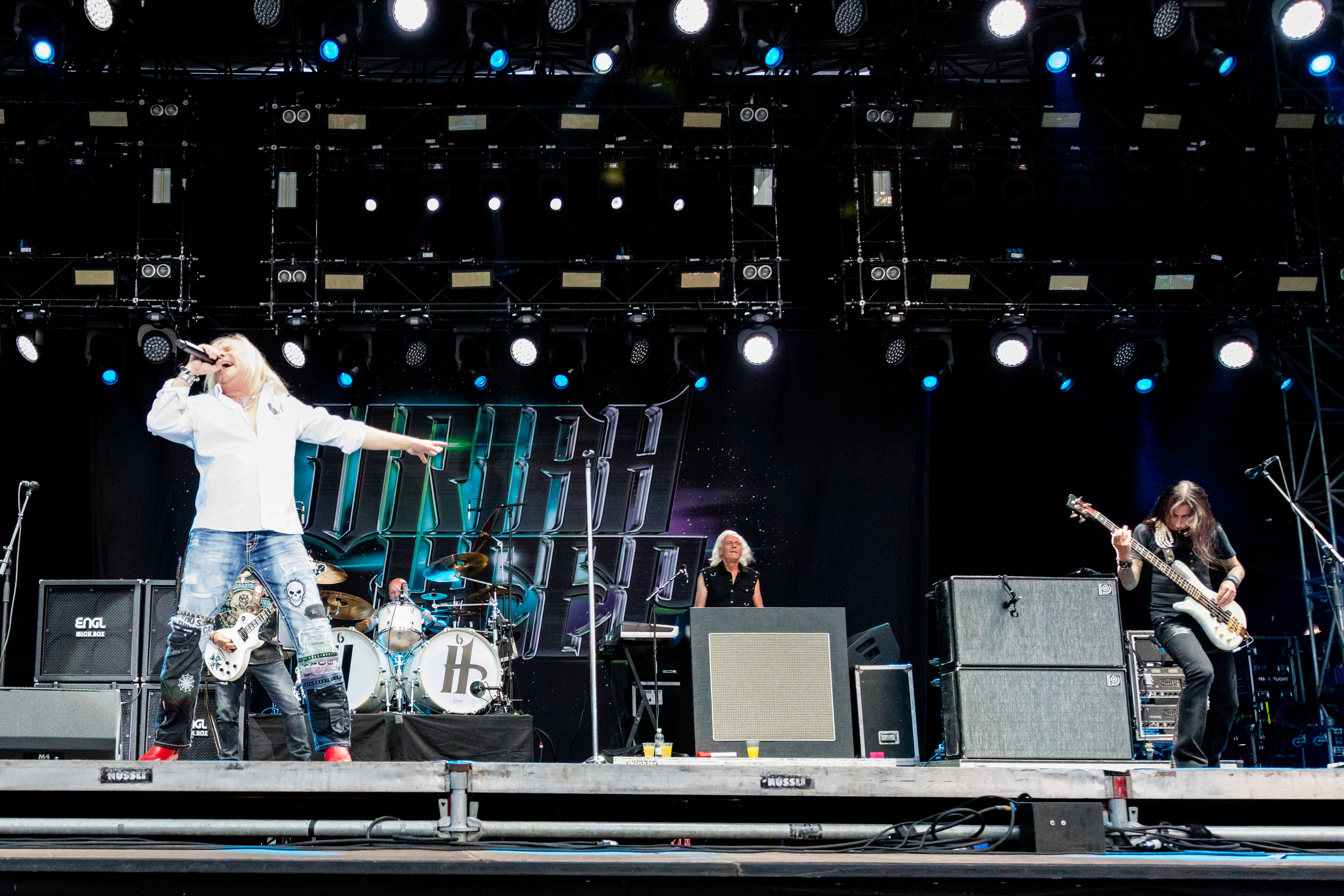 Uriah Heep @ Rock the Ring 2018